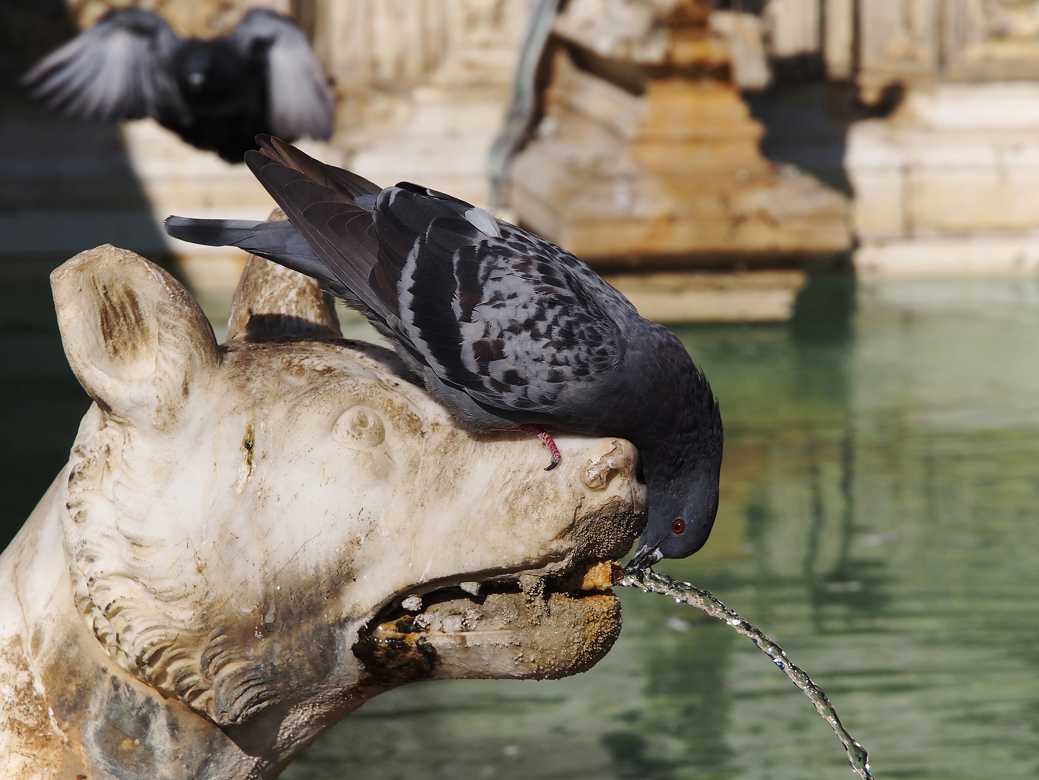 Fonte Gaia detail (built 1342). Wolves spouting water represent the mother-wolf of Remus and Romulus. Siena, Italy.